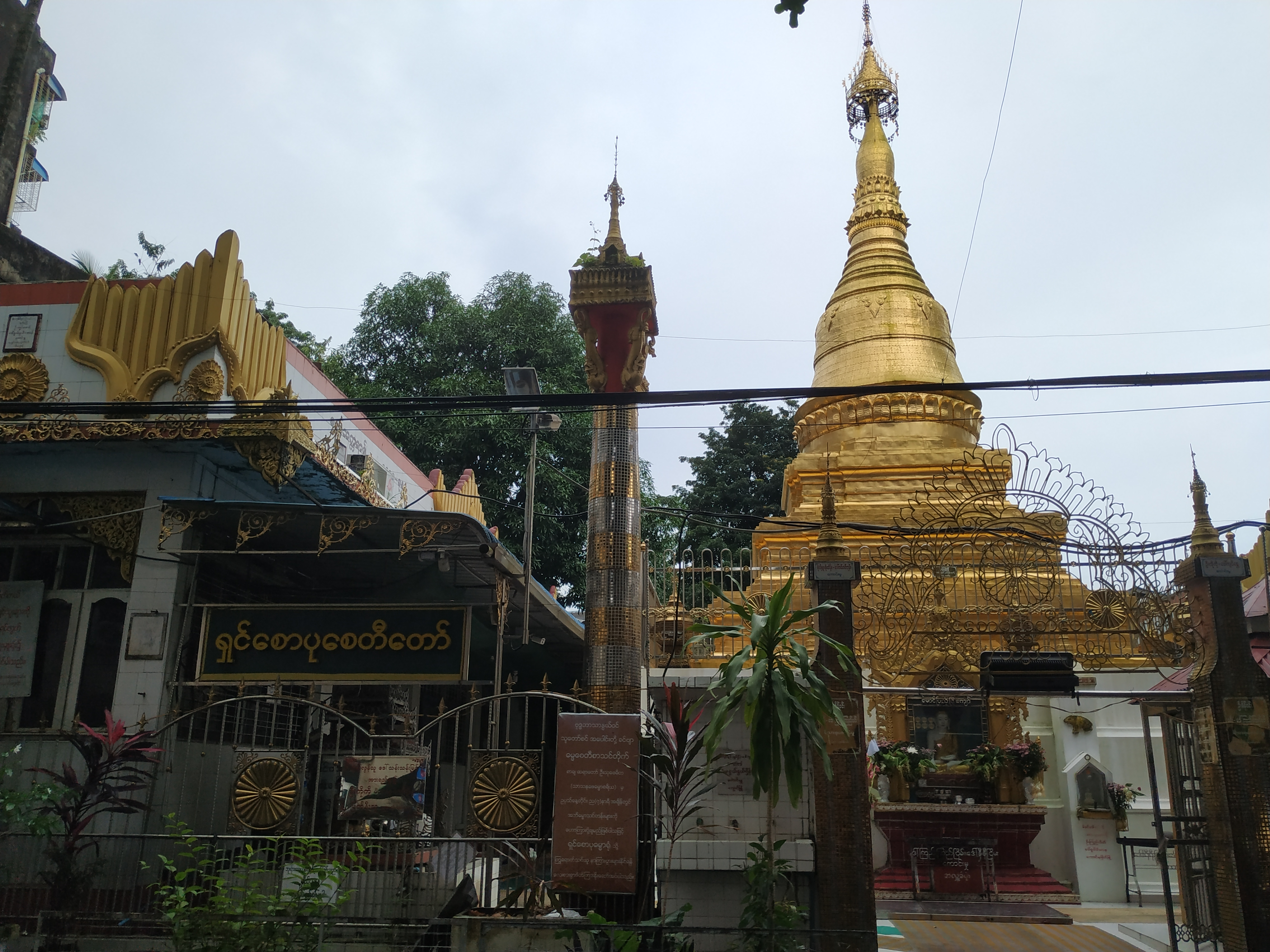 Shin Saw Pu Pagoda, Shin Saw Pu Pagoda Street, Sanchaung Township, Yangon မြန်မာဘာသာ: ရှင်စောပုစေတီတော်၊ ရှင်စောပုဘုရားလမ်း၊ စမ်းချောင်းမြို့နယ်၊ ရန်ကုန်